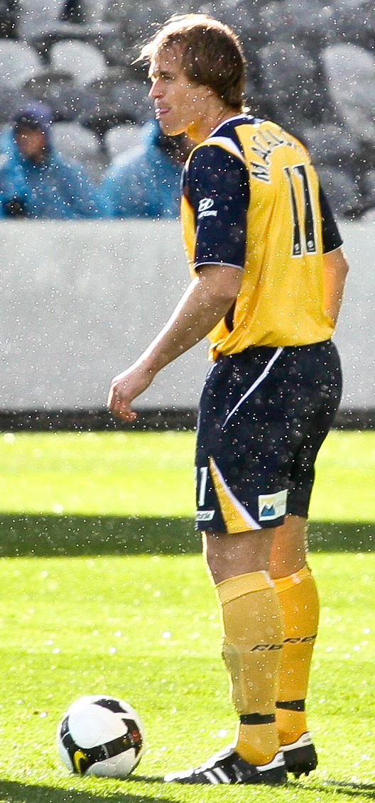 Dylan Macallister playing for the Central Coast Mariners in a Pre Season Cup game against Sydney FC.